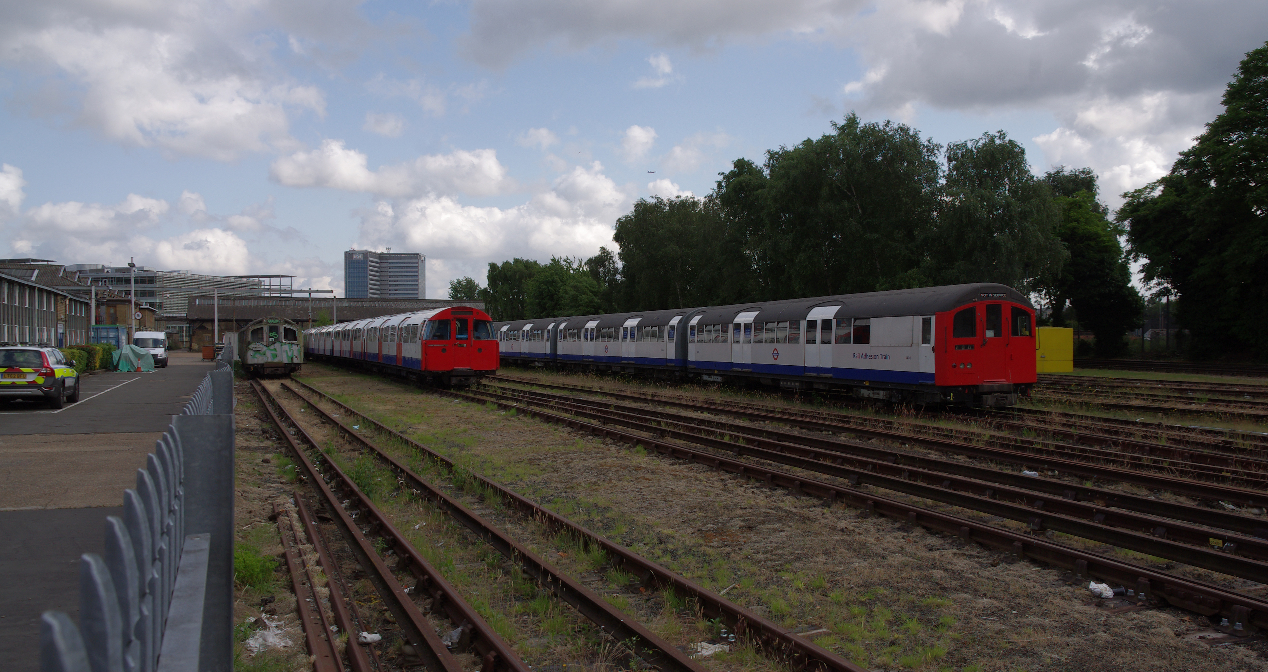 Three old trains at Acton Works - on the left an ex-Central/Piccadilly Line 1959 Stock train. In the middle an ex-Victoria Line 1967 Stock train, and on the right a 1962 Stock train, now used as a Rail Adhesion unit.